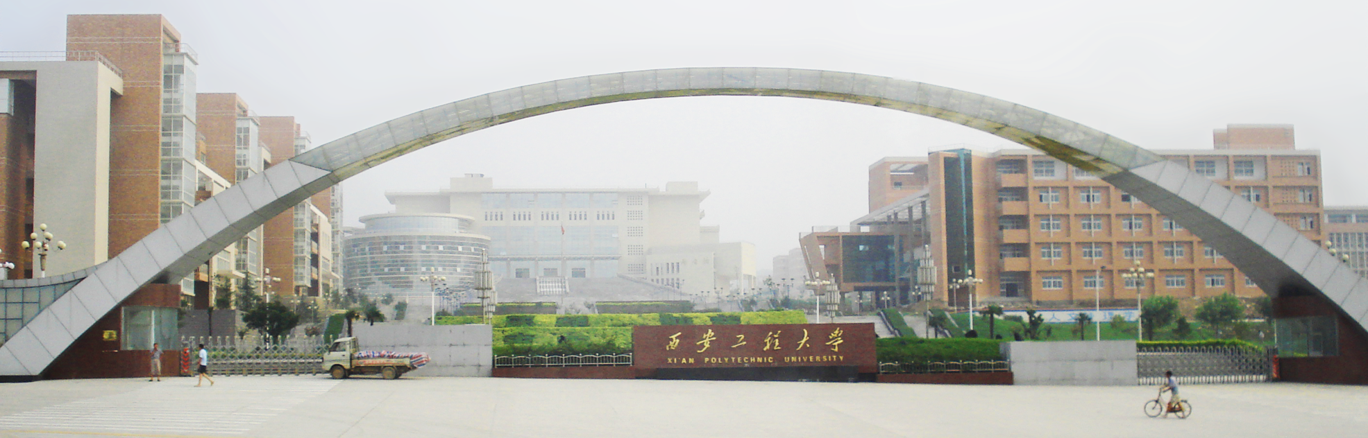 The decorative arch in front of Xi'an Polytechnic University Administrative Offices (西安工程大学教务处) in Xi'an, Shaanxi province, China. Post-processing was done to remove smog and other undesirable elements.